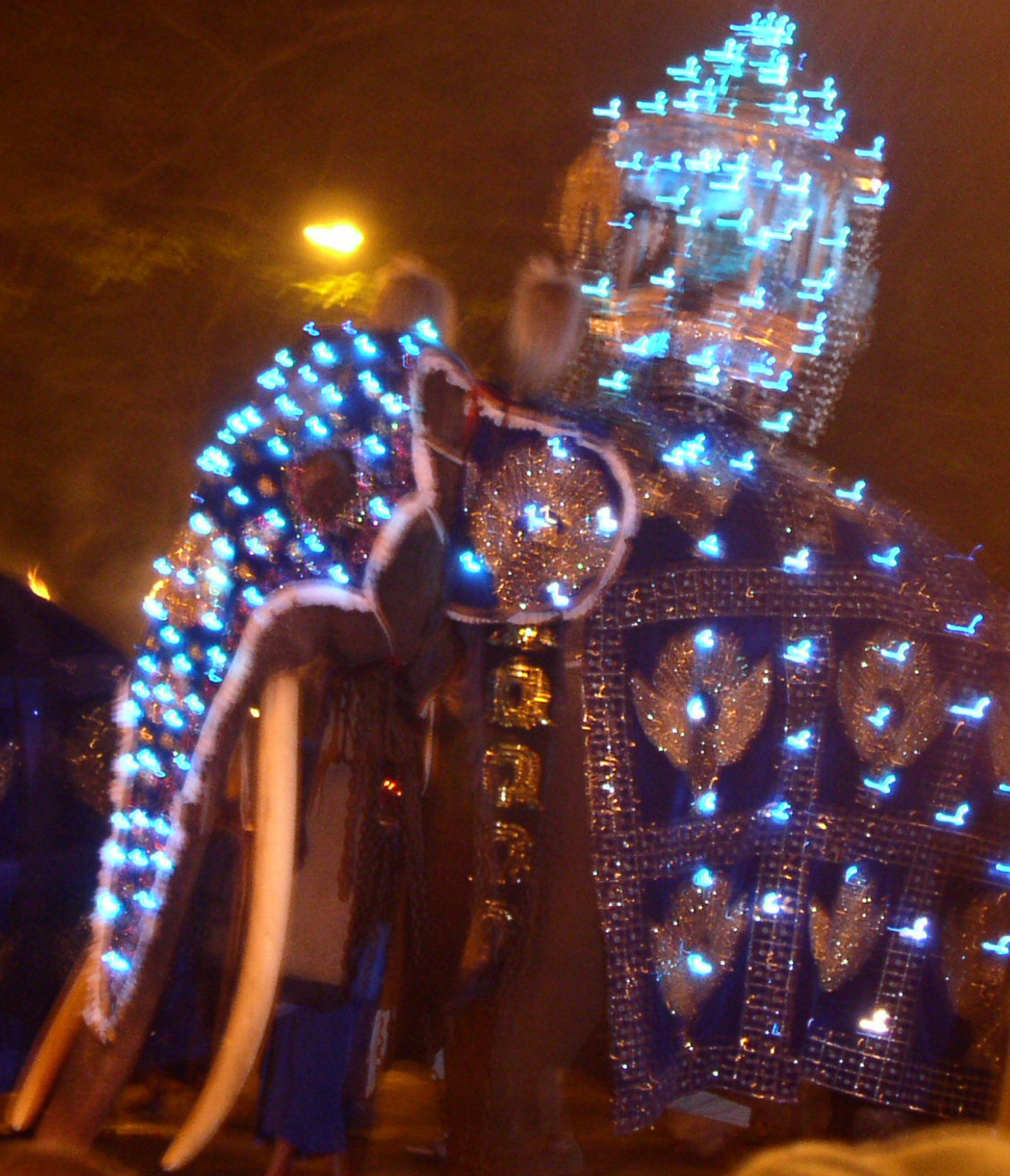 Photograph (Cropped) of late Tusker,Millangoda Raja (මිල්ලන්ගොඩ රාජා)